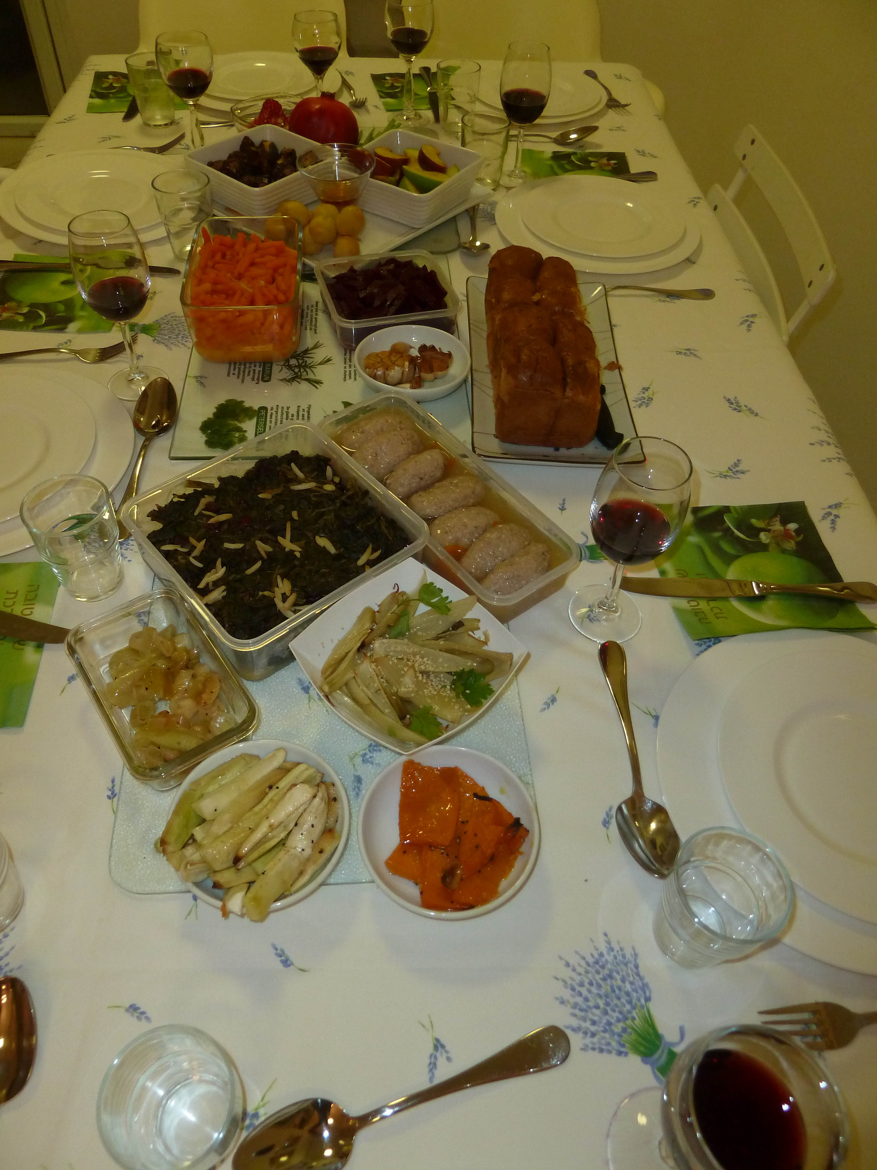 Rosh Hashanah Seder